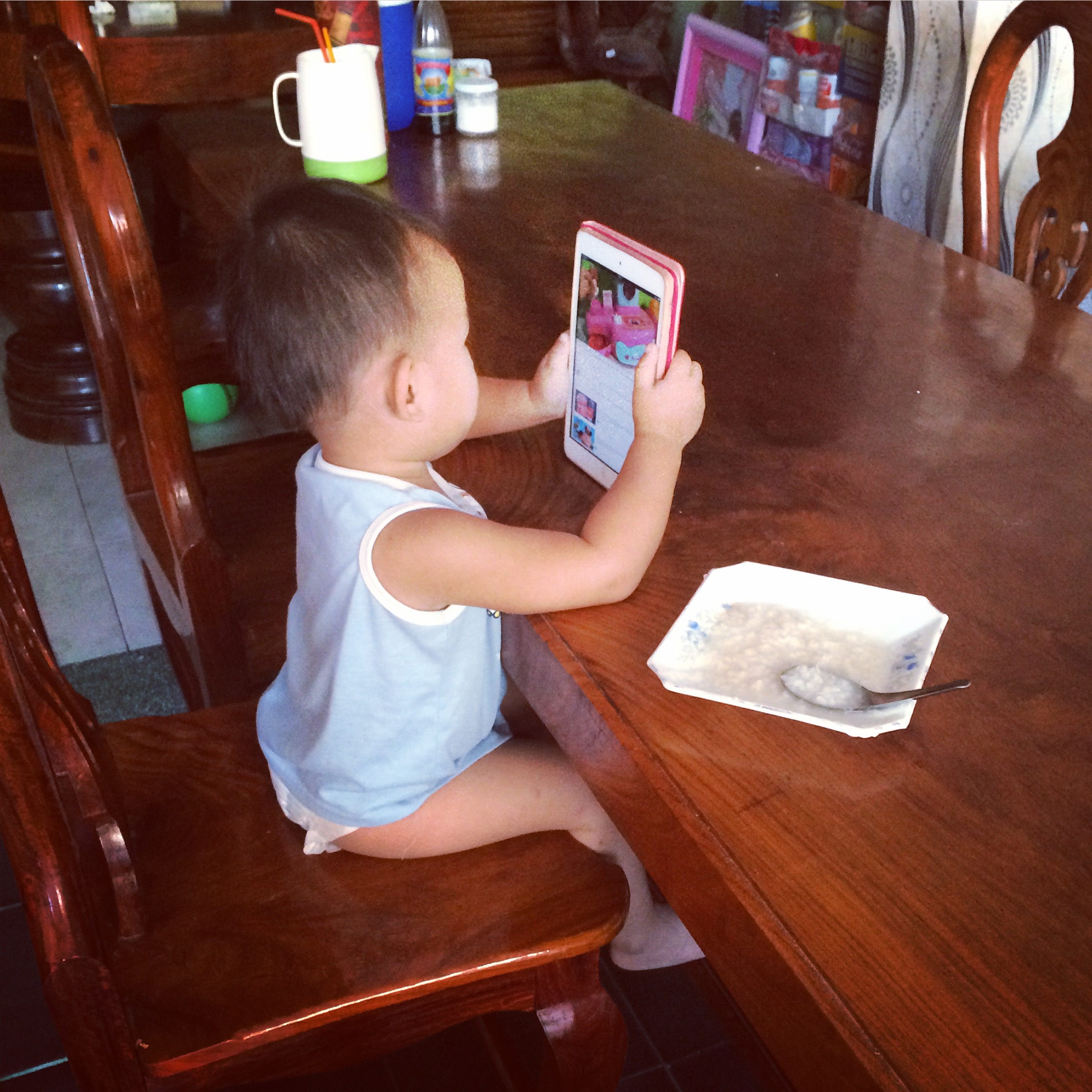 1-year old baby boy flipping through youtube videos all by himself